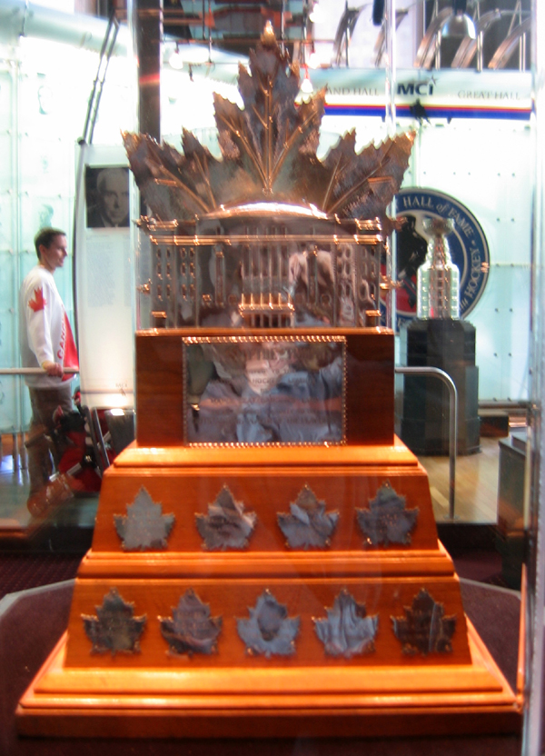 Conn Smythe Trophy on display at the Hockey Hall of Fame in Toronto. The trophy is awarded to the NHL's most valuable player during the playoffs. Taken by Kmf164 on November 19, 2005.